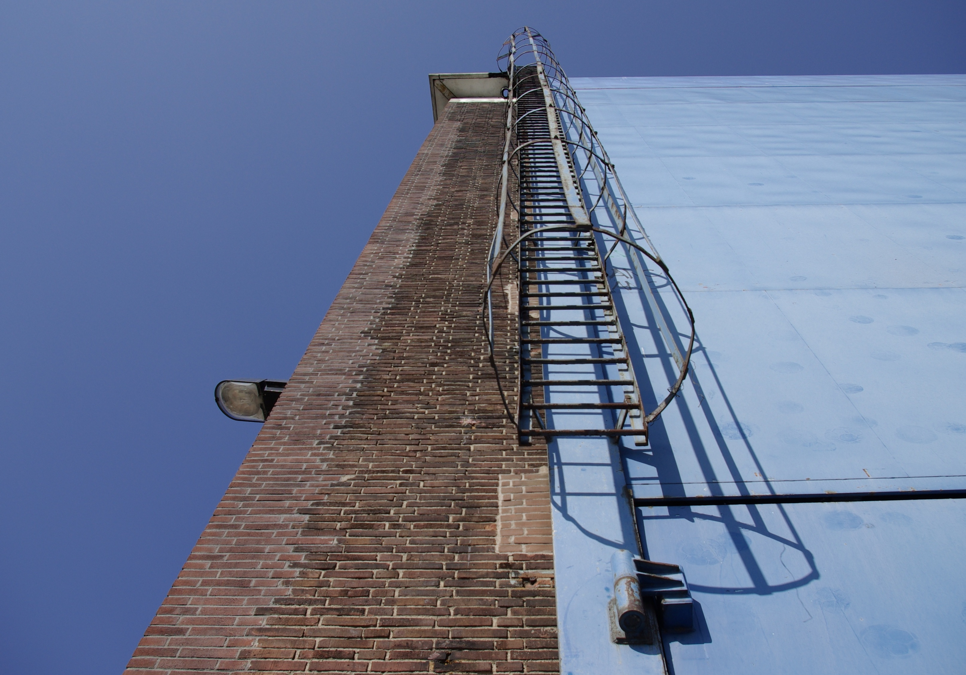 Fire escape in Amsterdam